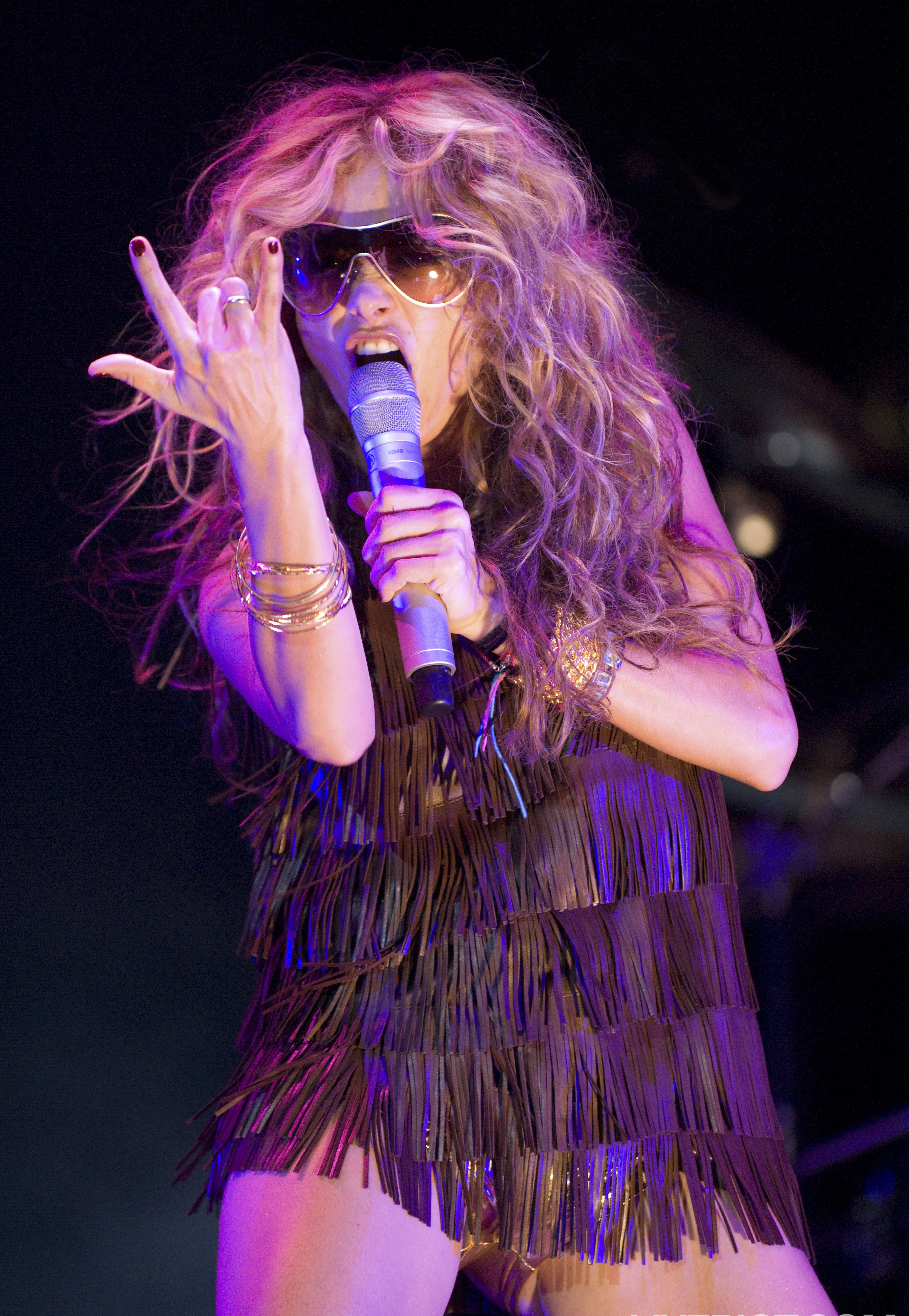 Paulina Rubio. Performing a live concert in the Asics Music Festival, Barcelona, October 2007.